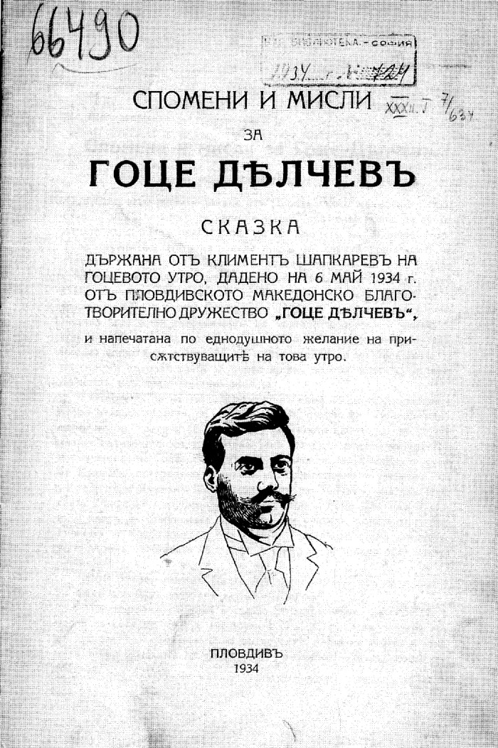 Gotse Delchev by Kliment Shapkarev